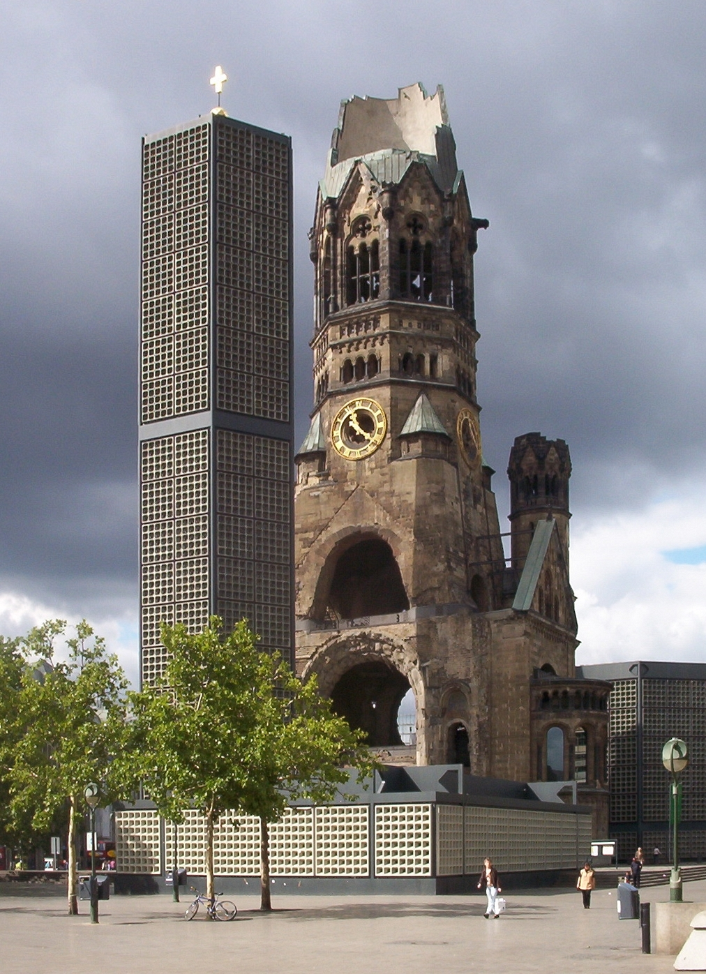 The Kaiser Wilhelm Memorial Church in Berlin-Charlottenburg